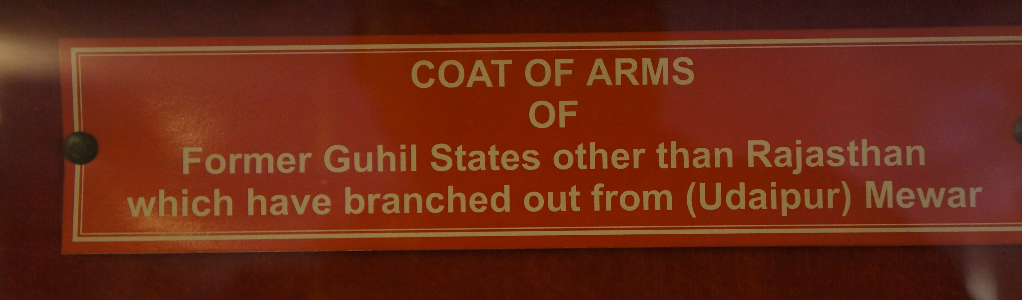 Picture describing the coat of Arms of Sisodia